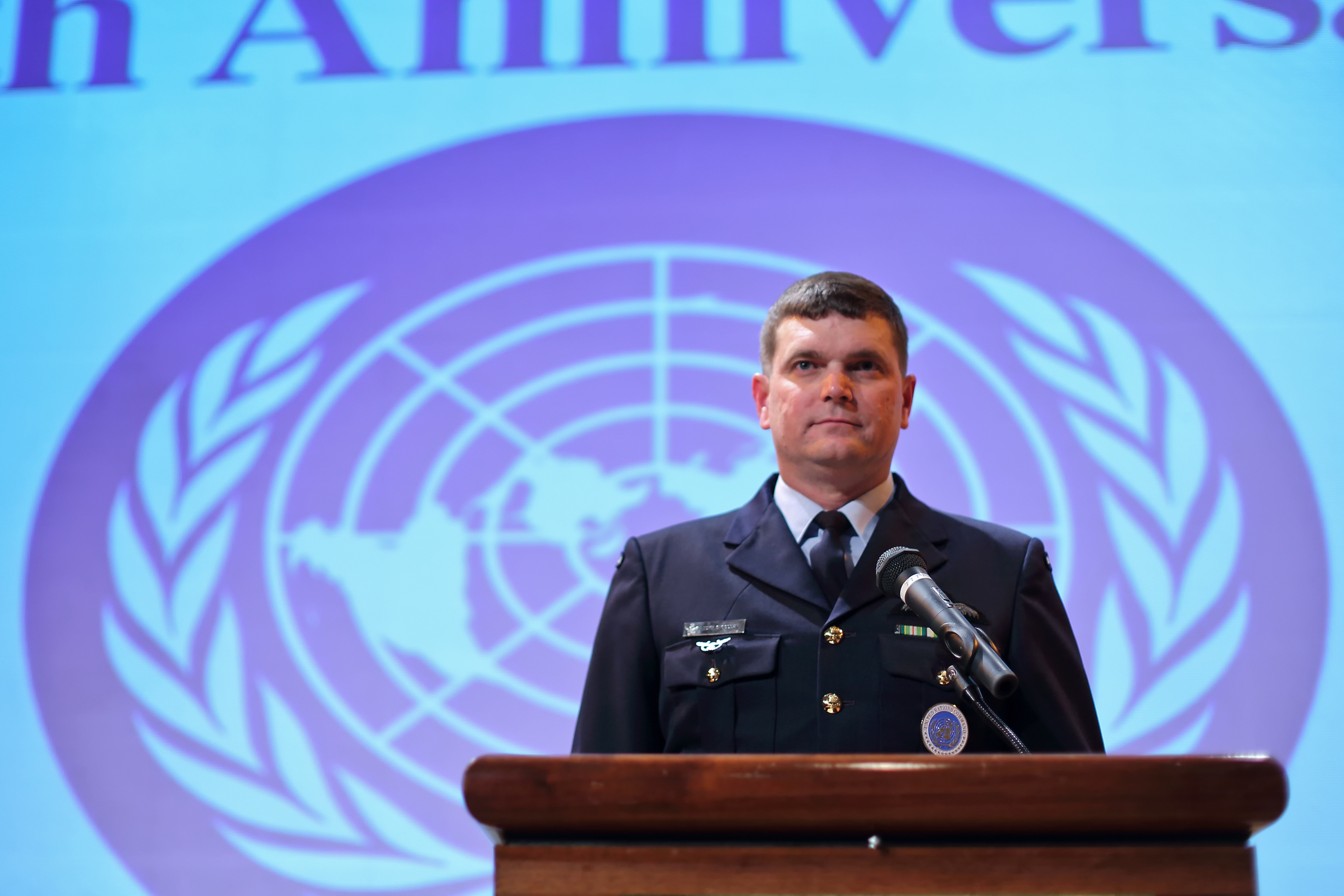 Royal Australian Air Force Group Captain Luke Stoodley, United Nations Command (Rear) commander, is ready for speech, during the 67th Anniversary of the United Nations, at New Sanno Hotel, Tokyo, Japan, Nov. 29, 2012. Stoodley assumed command of UNC(R) in Jan. 24, 2012.